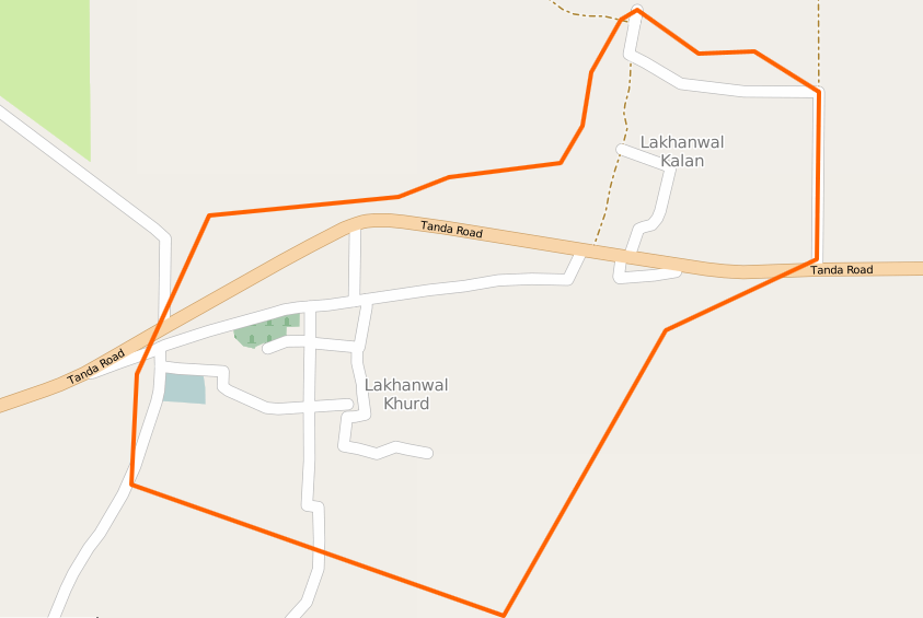 Lakhanwal Kalan and Lakhanwal Khurd are two villages located in District Gujrat, Punjab, Pakistan. These two villages are collectively referred to as Lakhanwal Khas or simply Lakhanwal. These villages are separated by Tanda road.